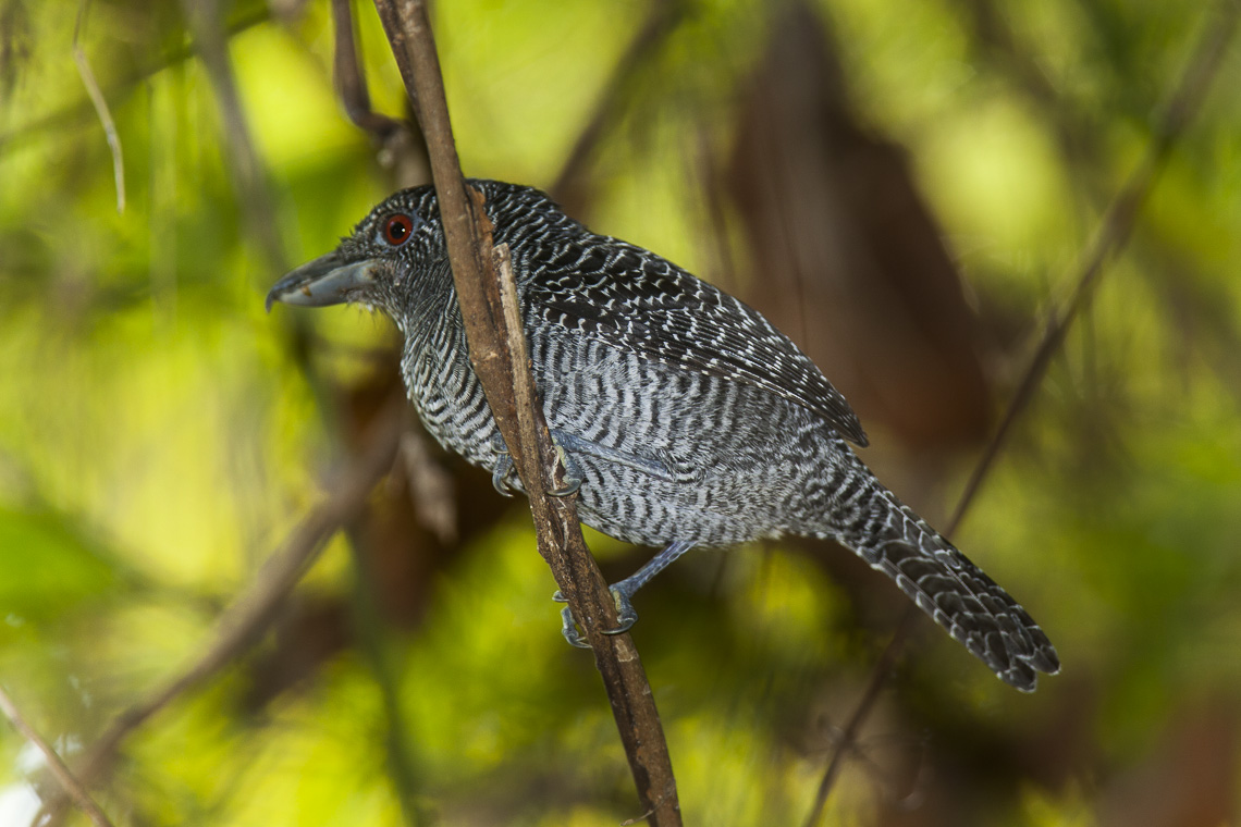 Fasciated Antshrike - Panam_MG_2298